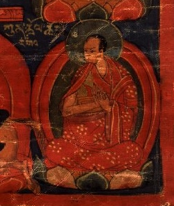 Kunga Drolchok b.1507 - d.1566, Jonang master